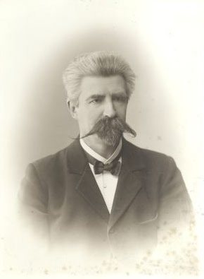 Photo of Pyotr Pustoroslev, Russian jurist, Professor of Criminal Law at the University of Tartu in 1892–1918, Rector of the University of Tartu in 1915–1917